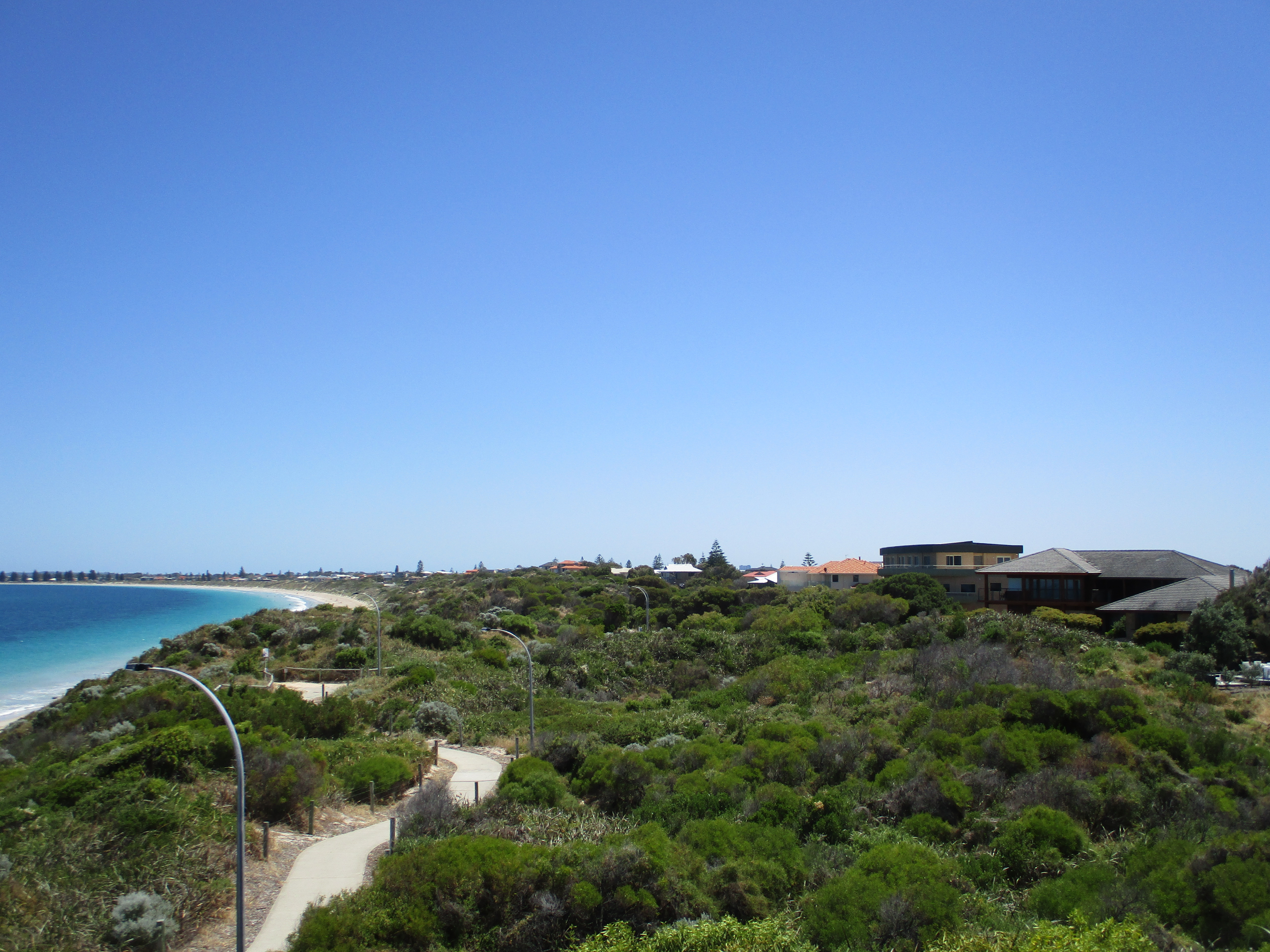 Warnbro, Western Australia, view from the foreshore. looking north from the lookout near La Seyne crescent.